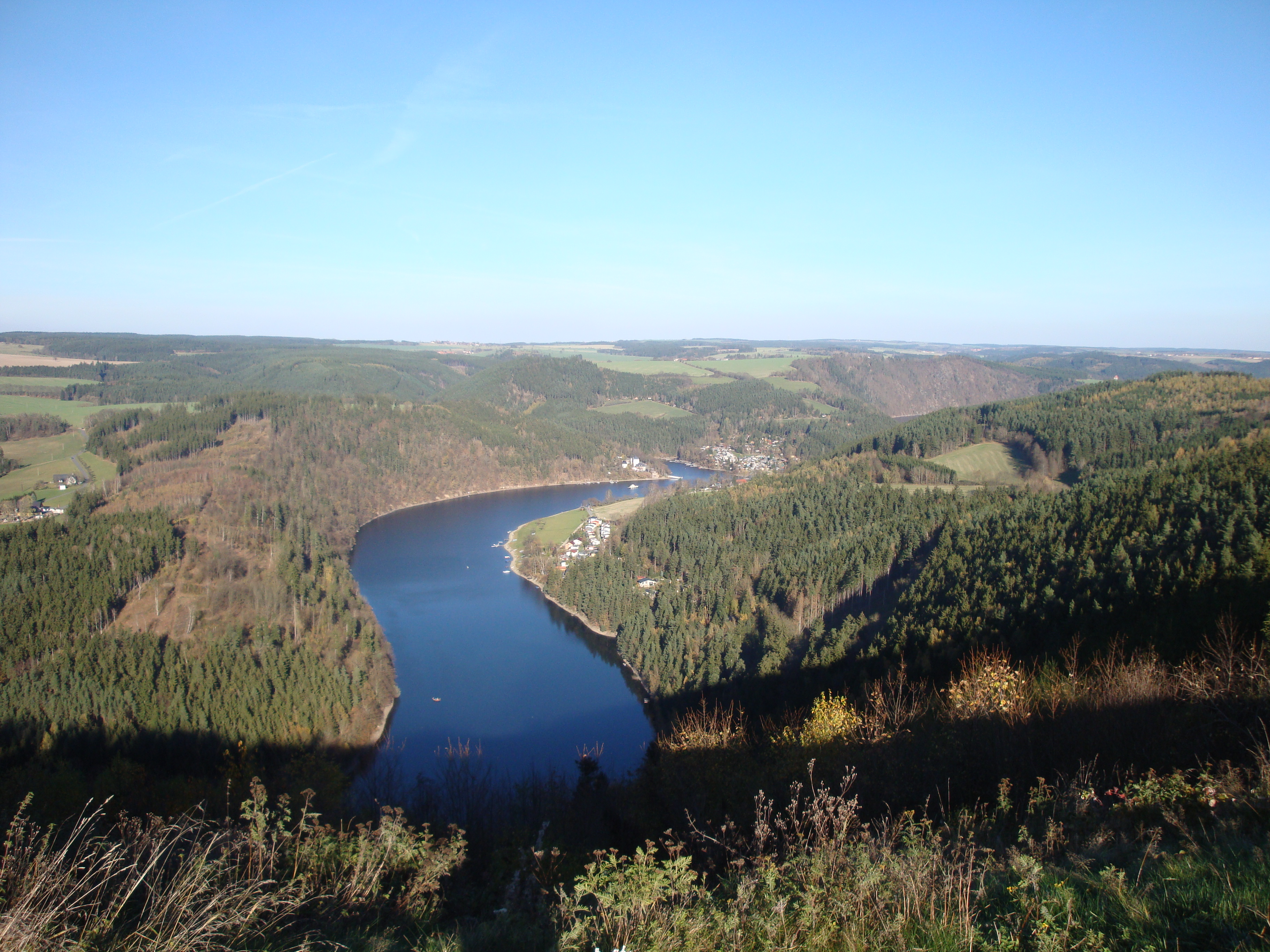 Section of the upper, still narrow part of the Hohenwarte reservoir (Saale River), western Thuringia, central Germany. View from near Altenbeuthen looking towards Linkenmühle.